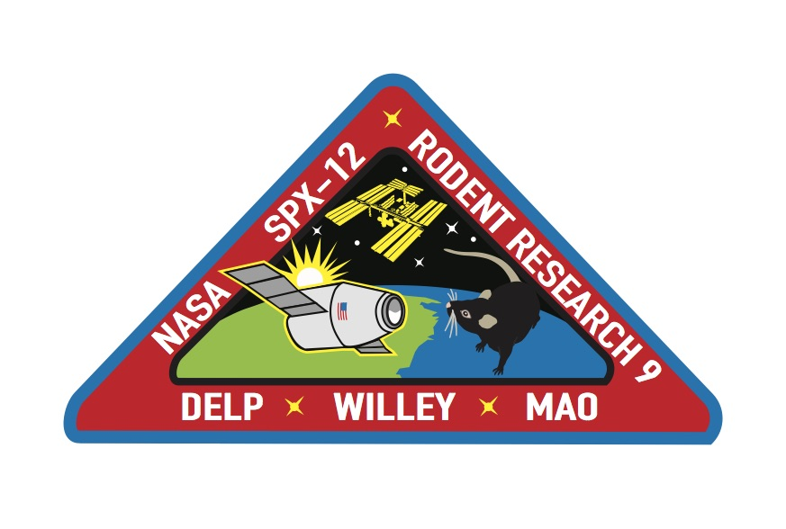 RR9 Patch, Patch Designer: John Woebcke